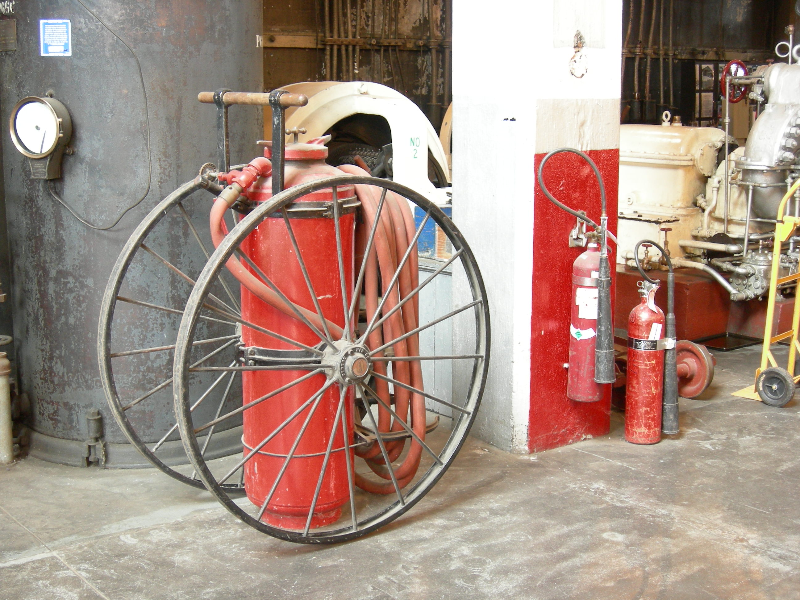 Fire extinguishers, inside the Georgetown PowerPlant Museum, Seattle, Washington, USA.